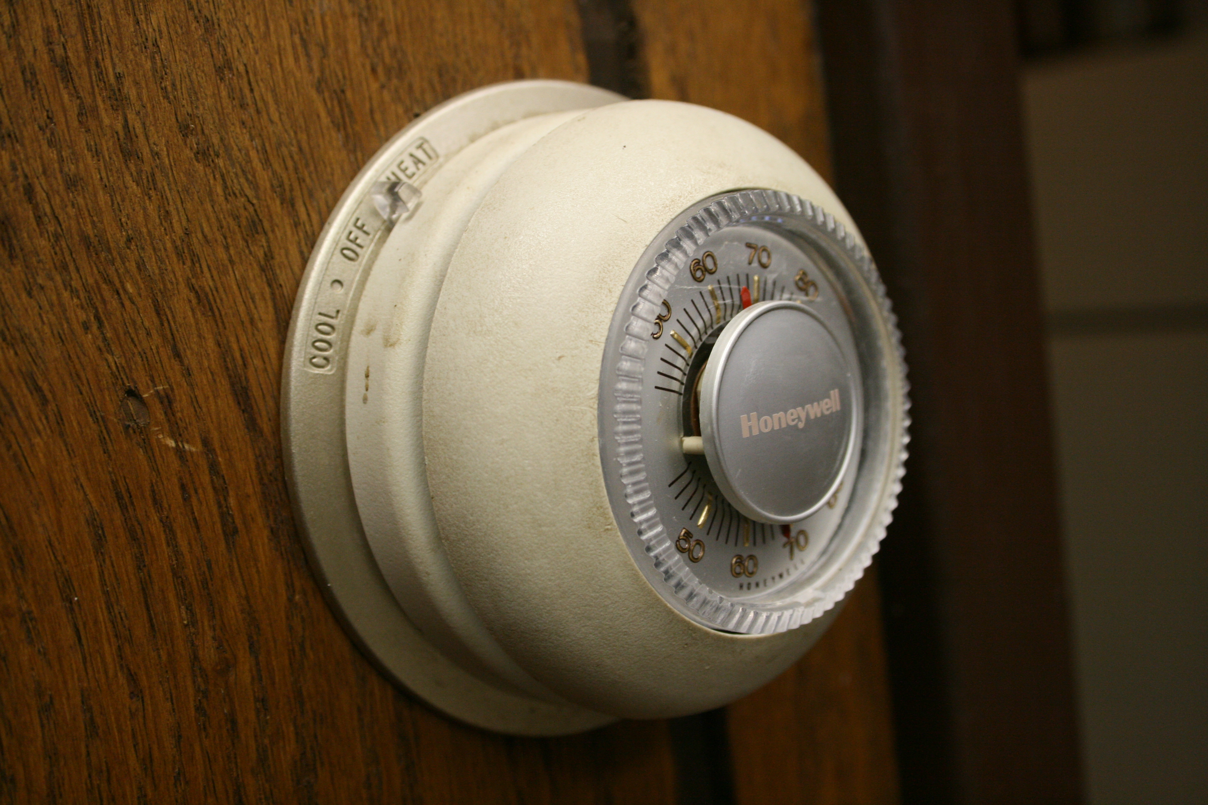 Picture of Honeywell's iconic model T87 thermostat, also called "The Round". There is one of these in the Smithsonian. Classic 20th-century Americana.